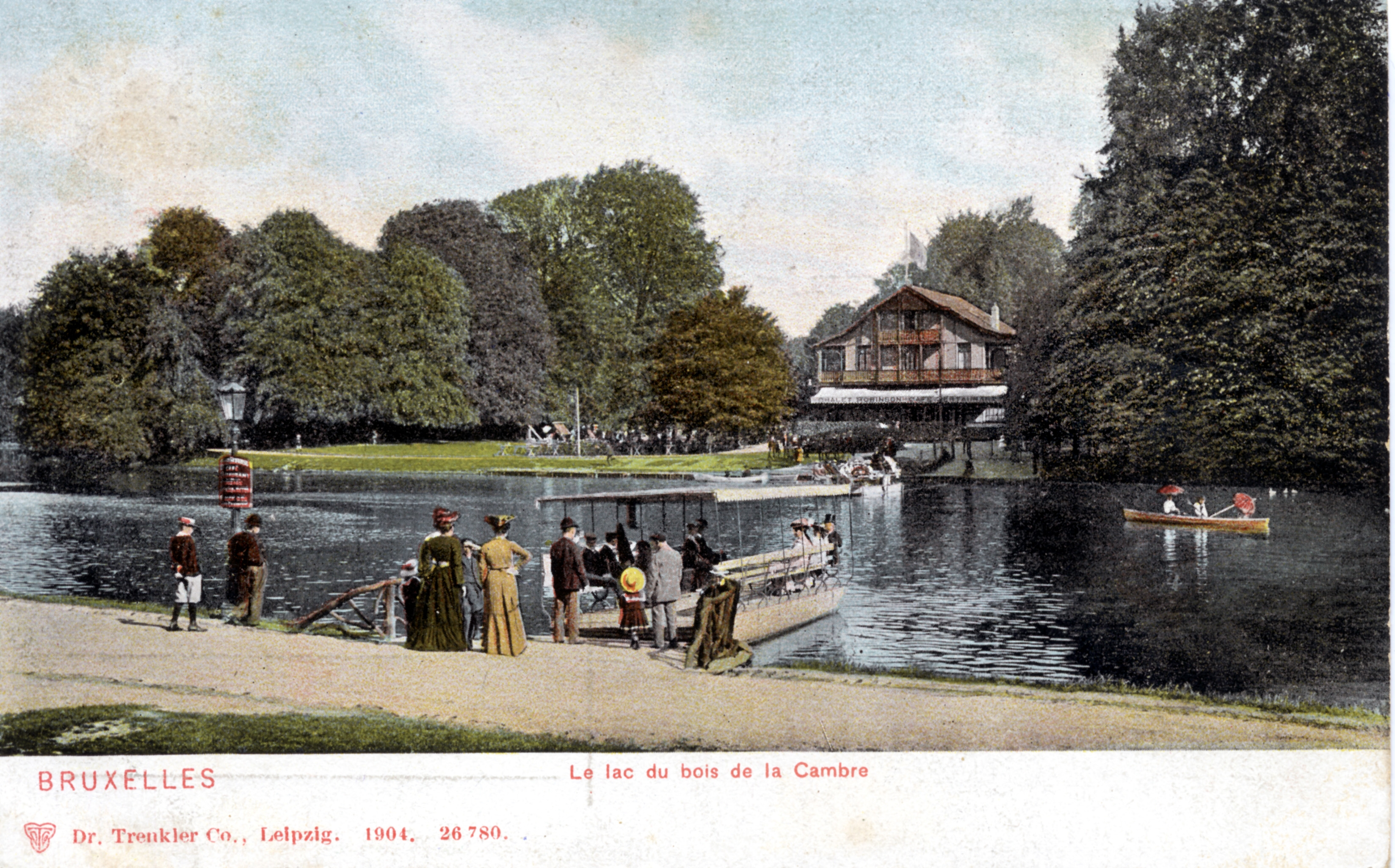 In the middle of the Bois de la Cambre,the isle of the Chalet Robinson( postcard 1904)